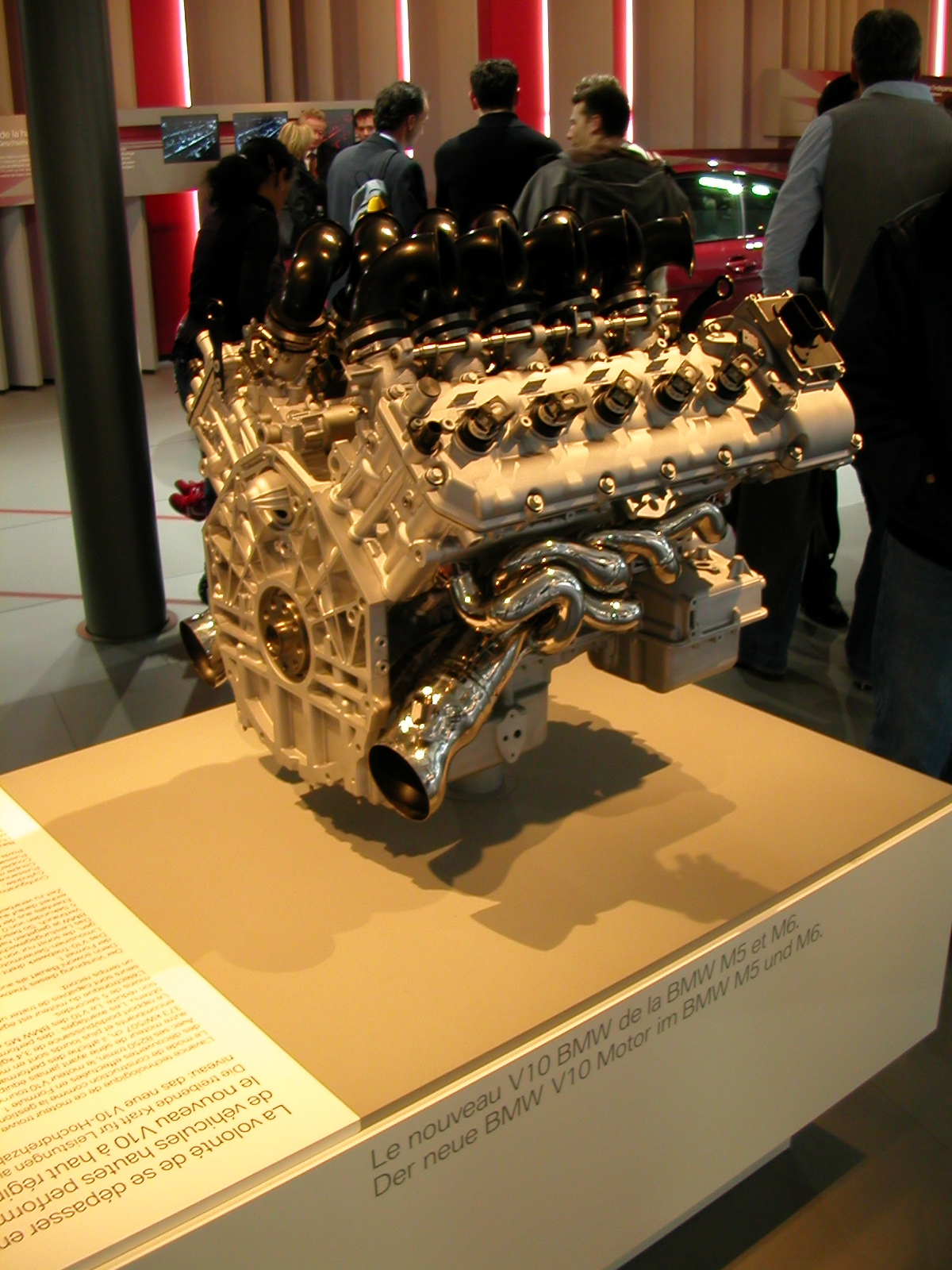 V10 engine of BMW M5 and M6